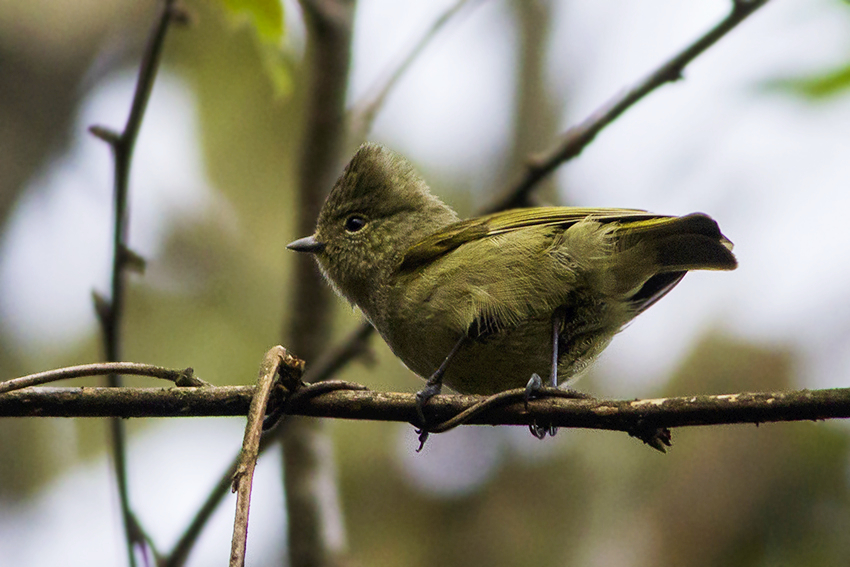 The bird Yellow-browed Tit had been photographed at Fambong Lho Wildlife Sanctuary in Sikkim on 30.03.2014.